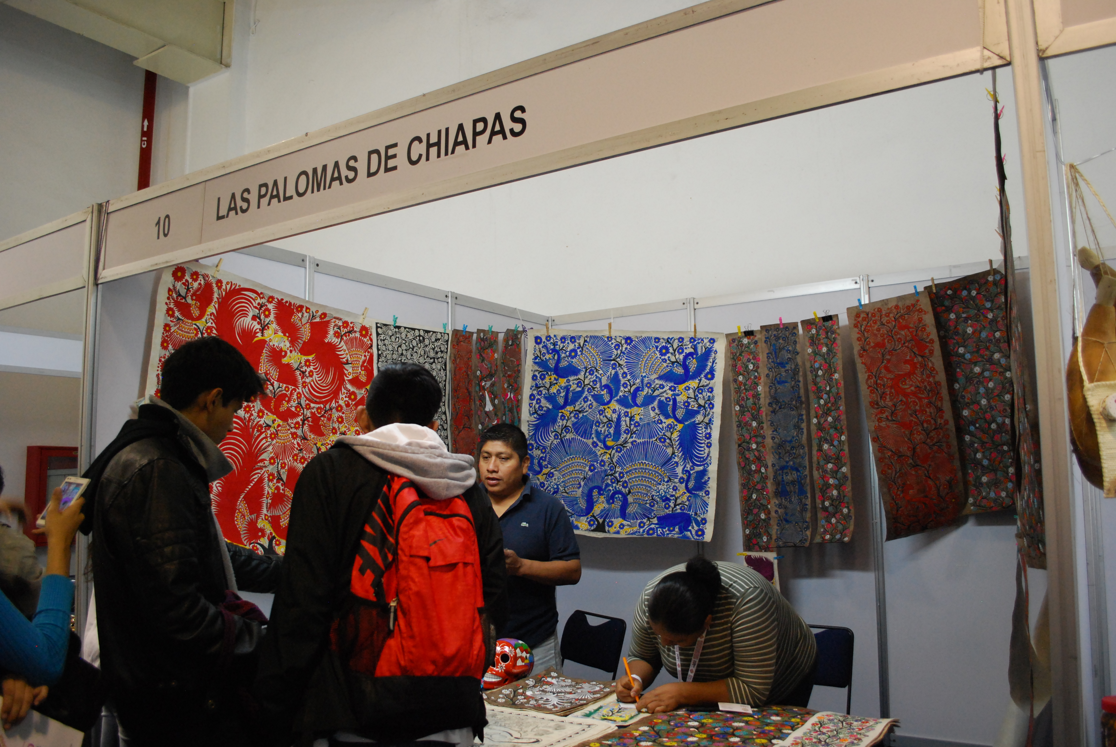 Las Palomas de Chiapas stand at the Expo de los Pueblos Indígenas in Mexico City